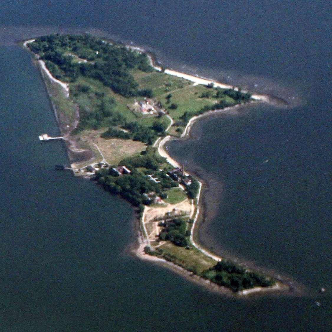 Aerial view of Hart Island, off the coast of Peltam (Bronx), New York.